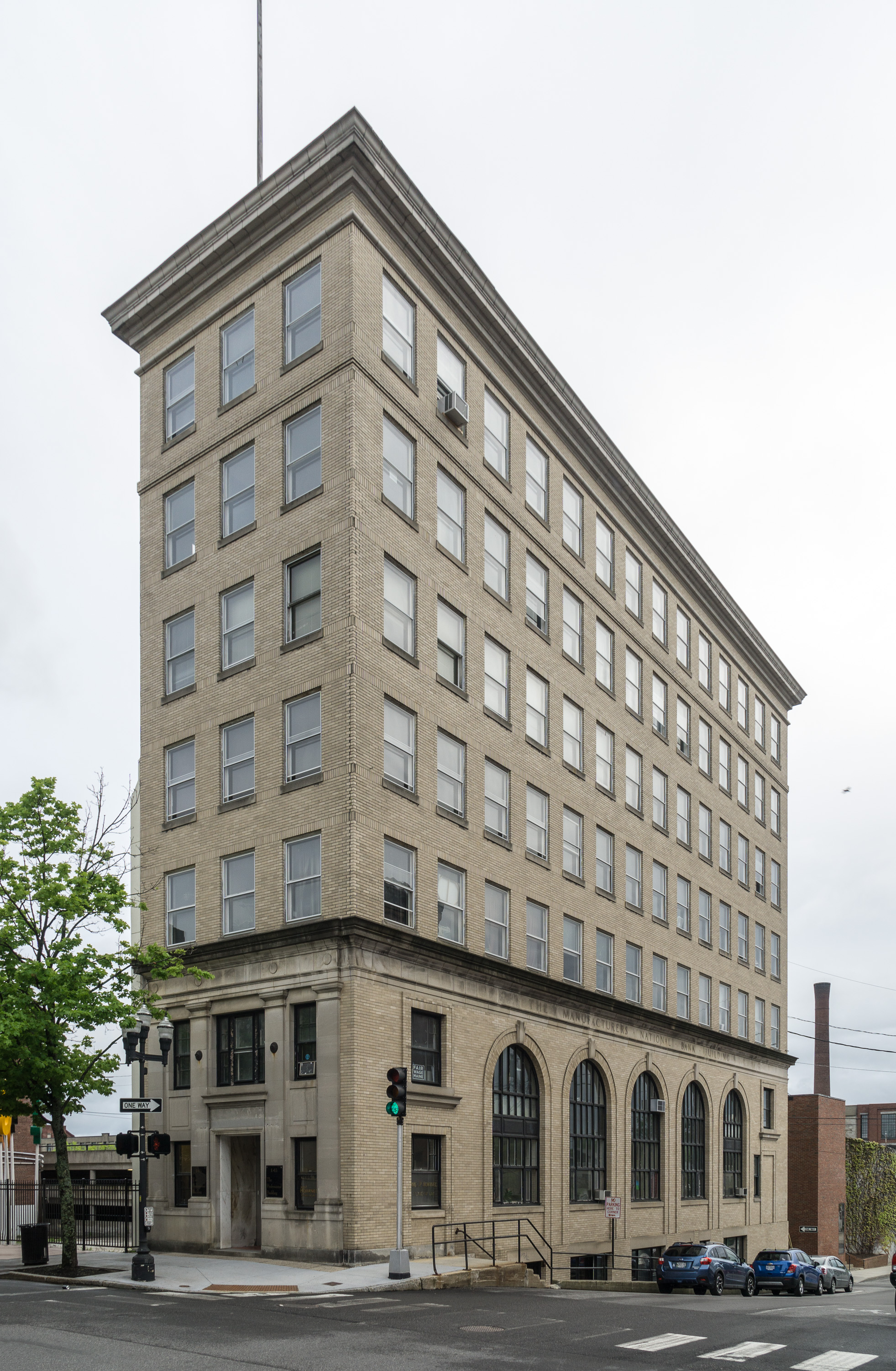 Manufacturers National Bank building Lewiston, Maine in 2017